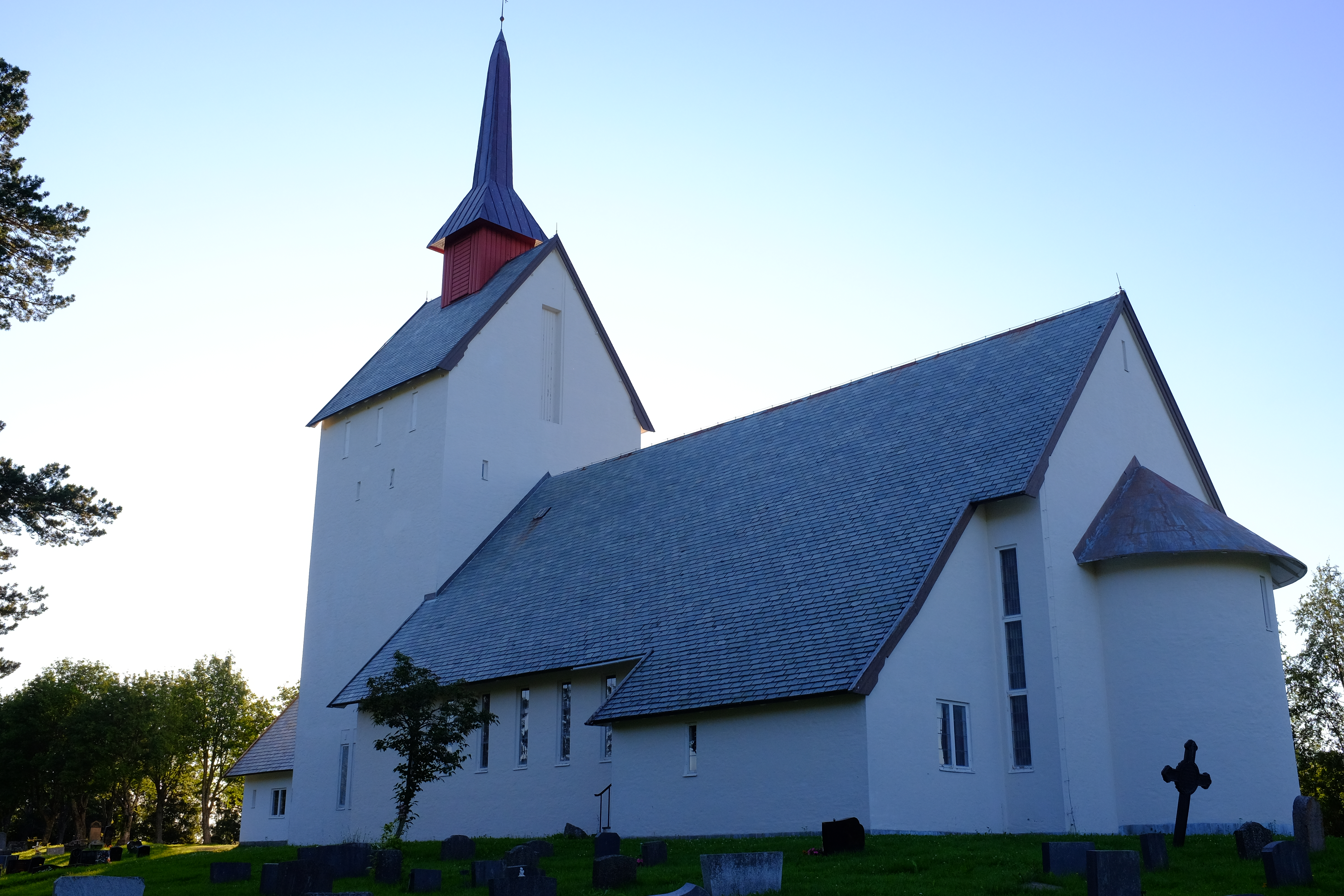 Skjerstad Church is a parish church in the municipality of Bodø in Nordland county, Norway. It is located in the village of Skjerstad, along Skjerstad Fjord. The church is part of the Misvær and Skjerstad parish in the Bodø Deanery in the Diocese of South Hålogaland. The white, stone and concrete church was built in 1959, and it was designed by Arnstein Arneberg. He is most famus for the interior design of UN Security Council Chamber in New York City.